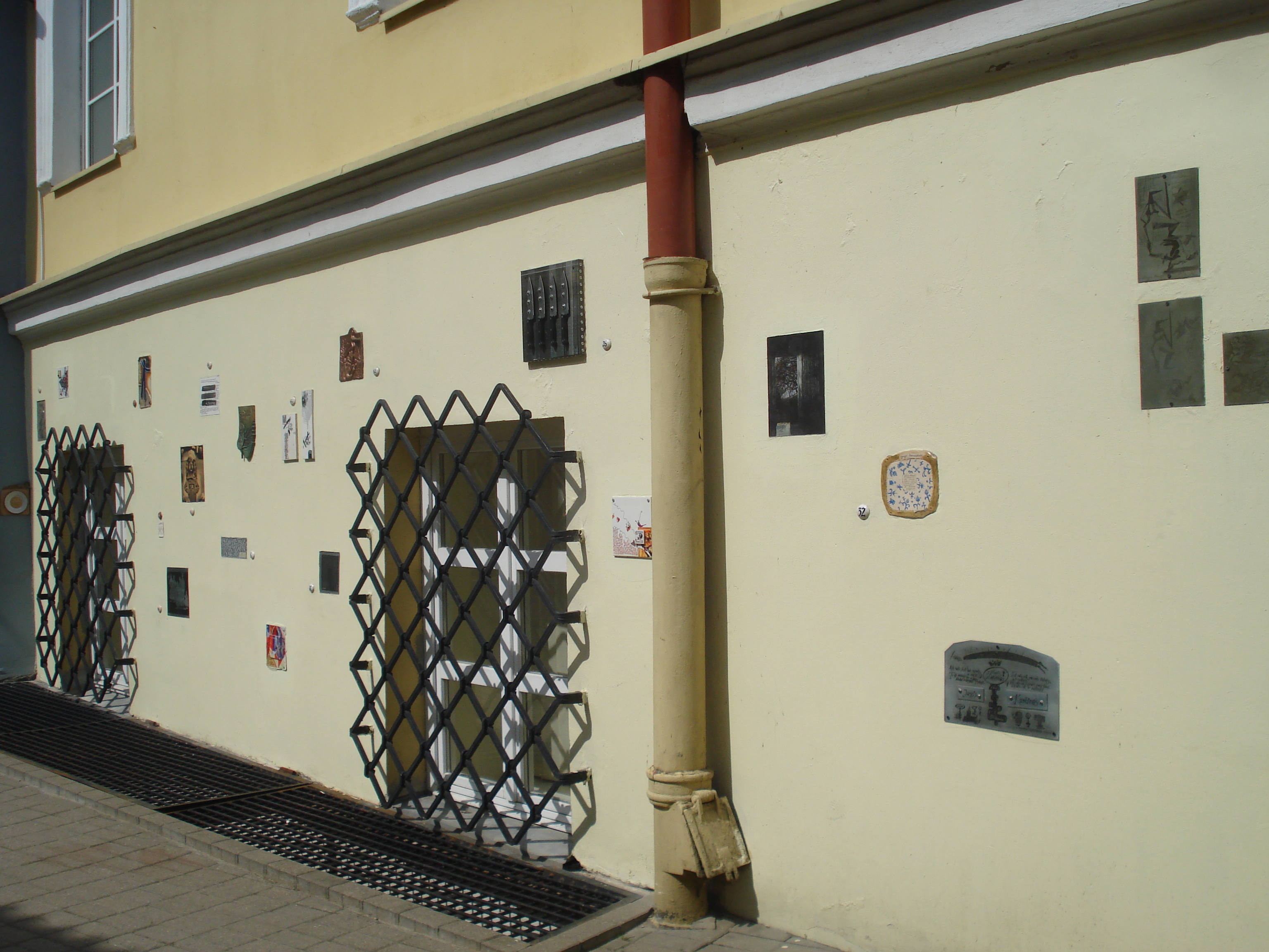 The wall with mounted dedications to the literature workers in the Literatų street. Vilnius